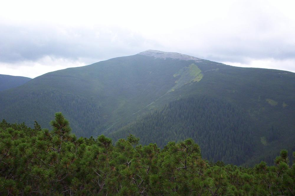 Popadia in Gorgany.